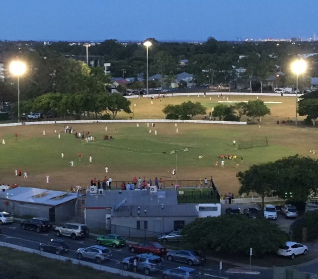 Aerial view of Toombul Cricket Club